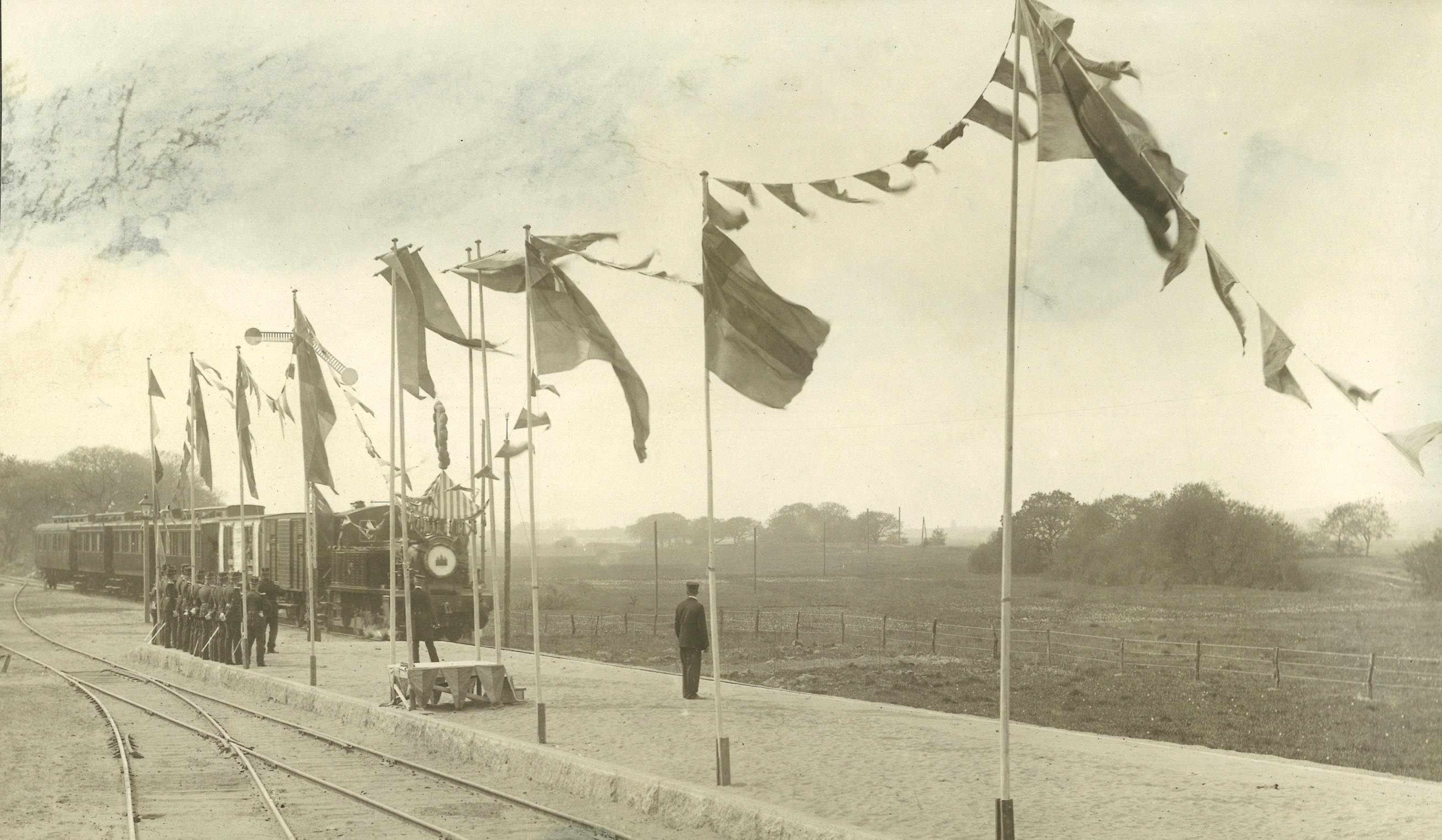 From the opening of Lund-Revinge Järnväg (Lund-Revinge Railway), May 27th 1905. The first train arrives at Revinge Station.